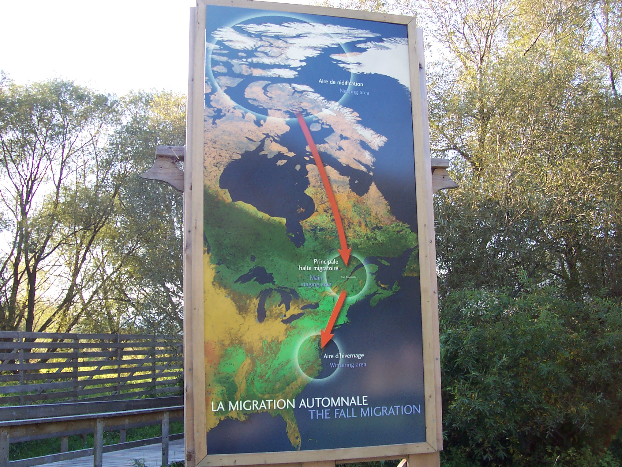 Migration path of the snow goose at the Cap Tourmente national wildlife reserve, Quebec, Canada. Photo par / taken by Boréal (User:Boréal)